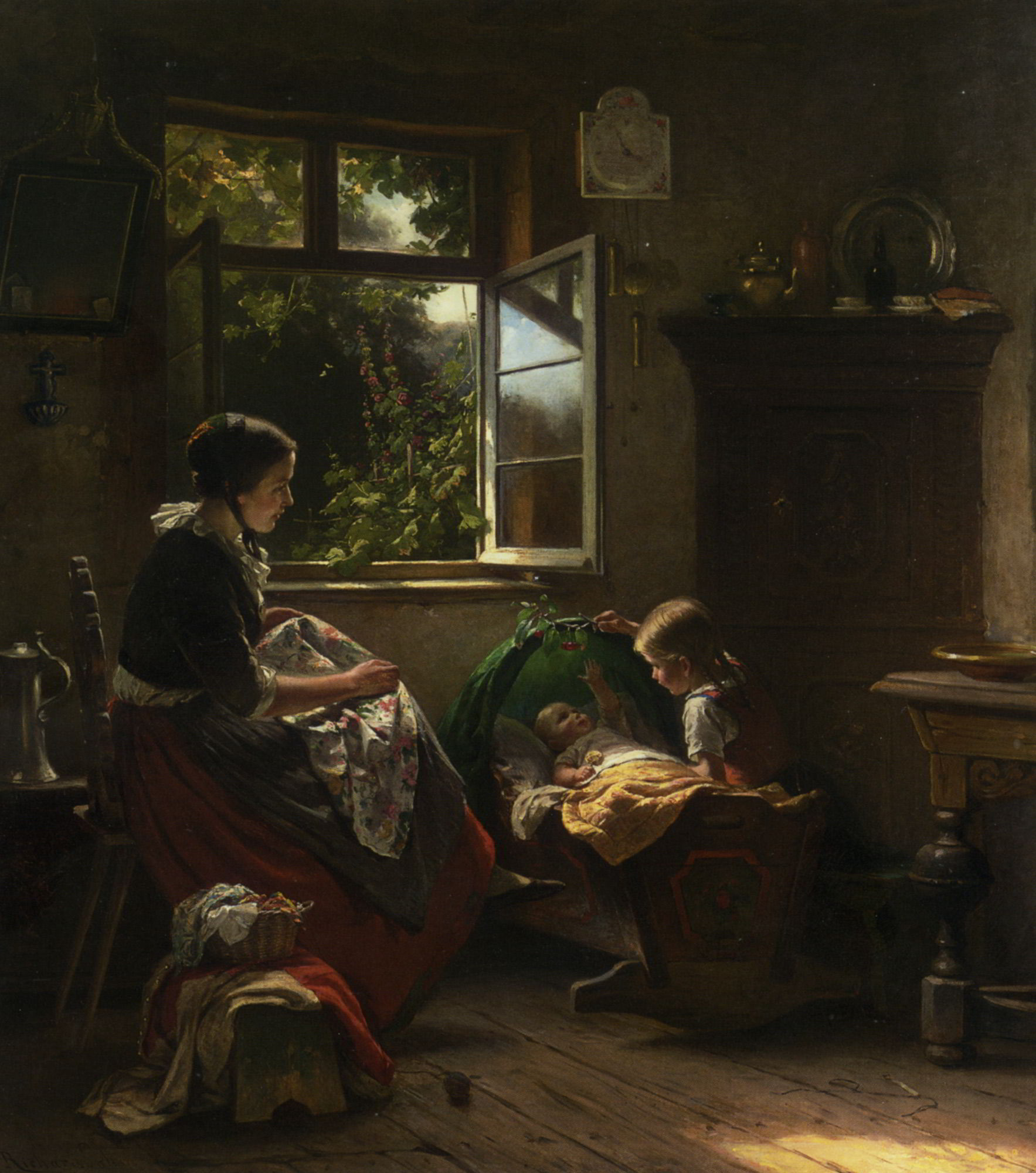 Richard Sohn, Playing with Baby, 1869